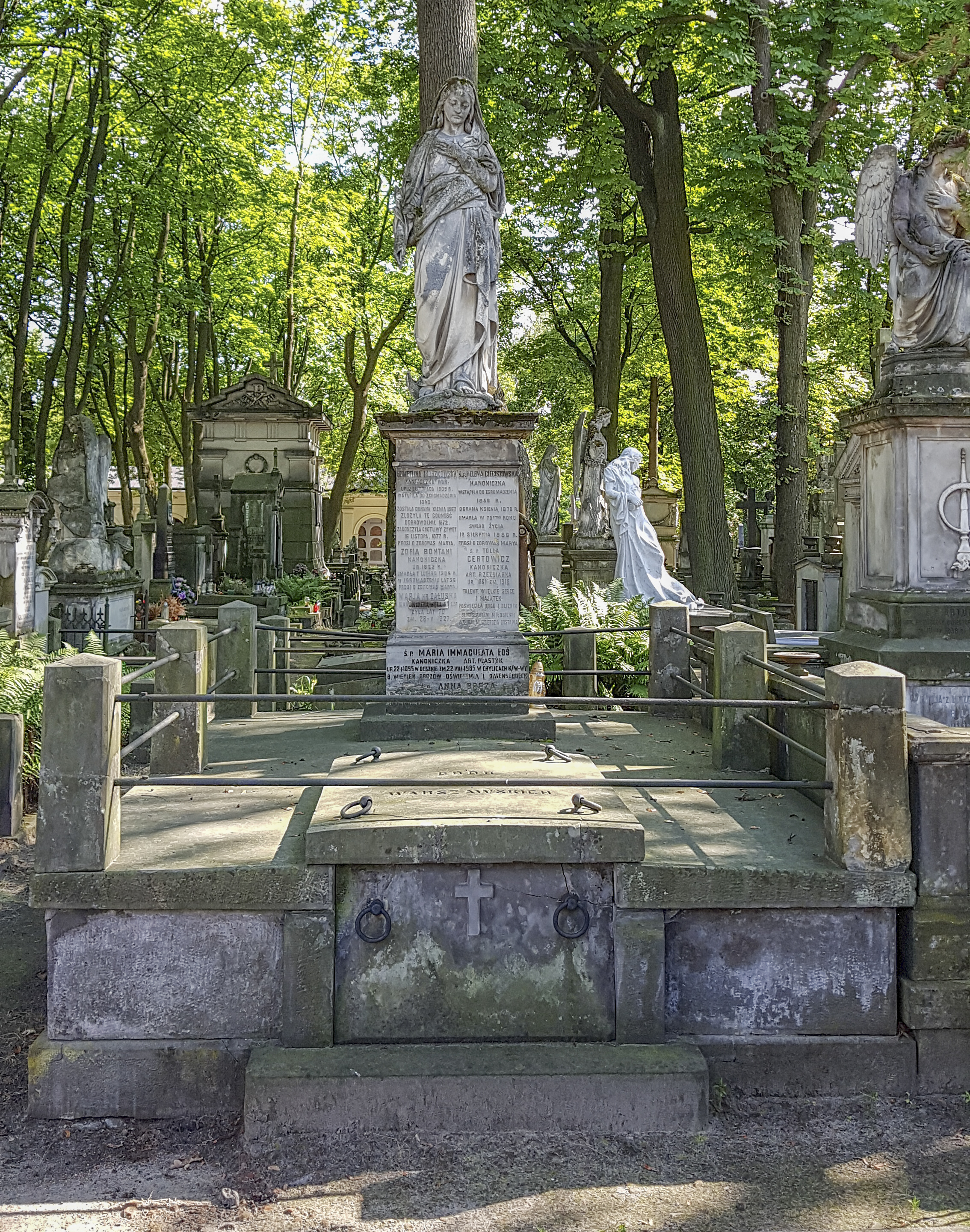 The tomb in Stare Powązki in Warsaw, where Tola Certowicz is buried.